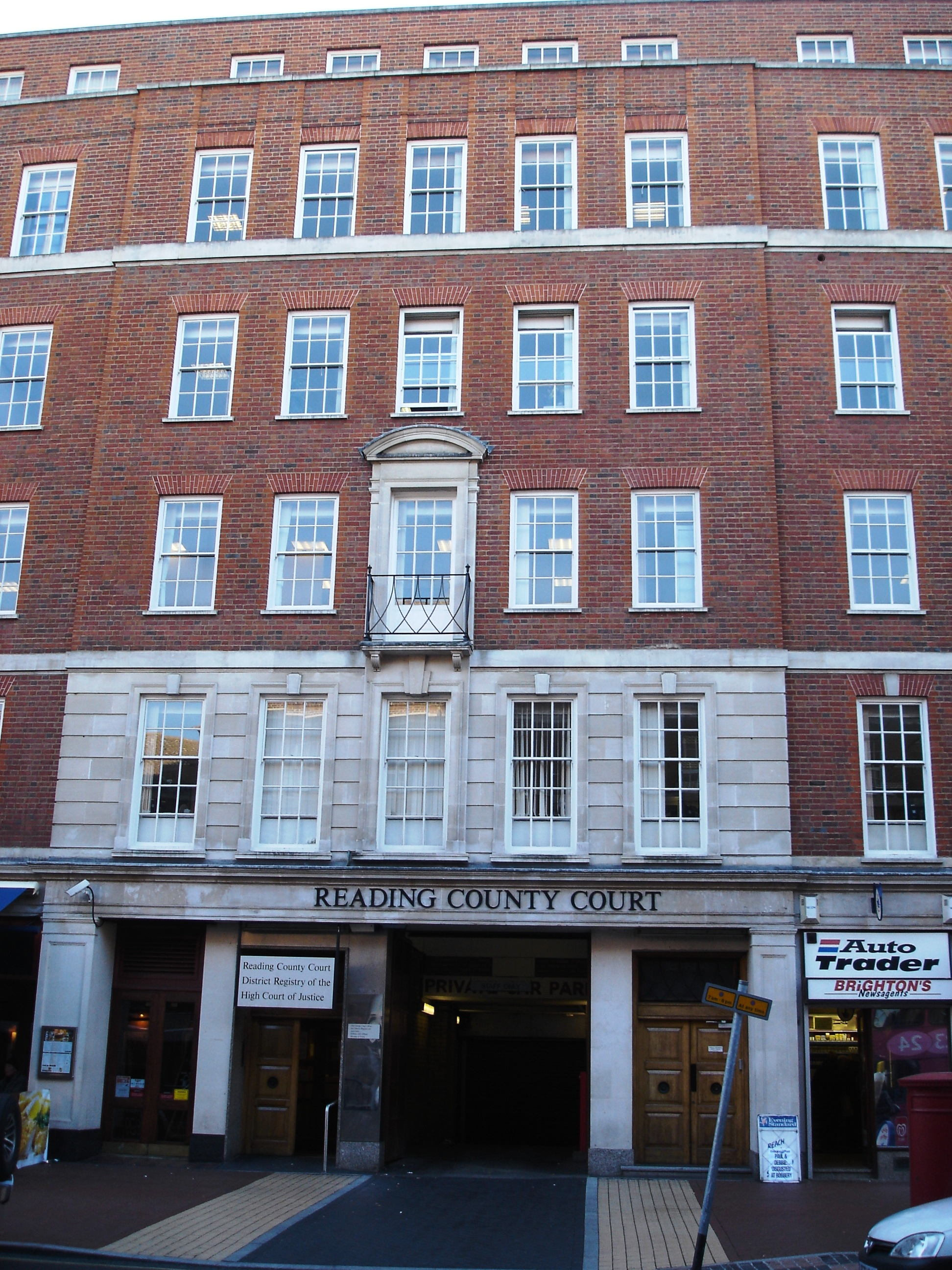 The County Court in Reading, Berkshire